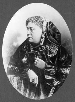 Helena Petrovna Blavatsky (1831-1891) in Ithaca, New York, September 1875